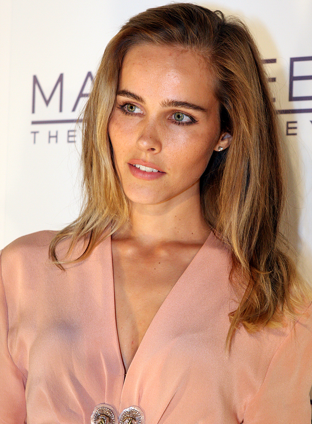 Isabel Lucas at the Paris Hilton: Marquee The Star Sydney 2012.